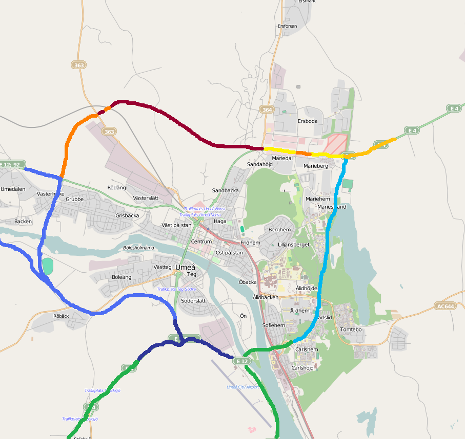 Map of the ring road project in Umeå, Sweden